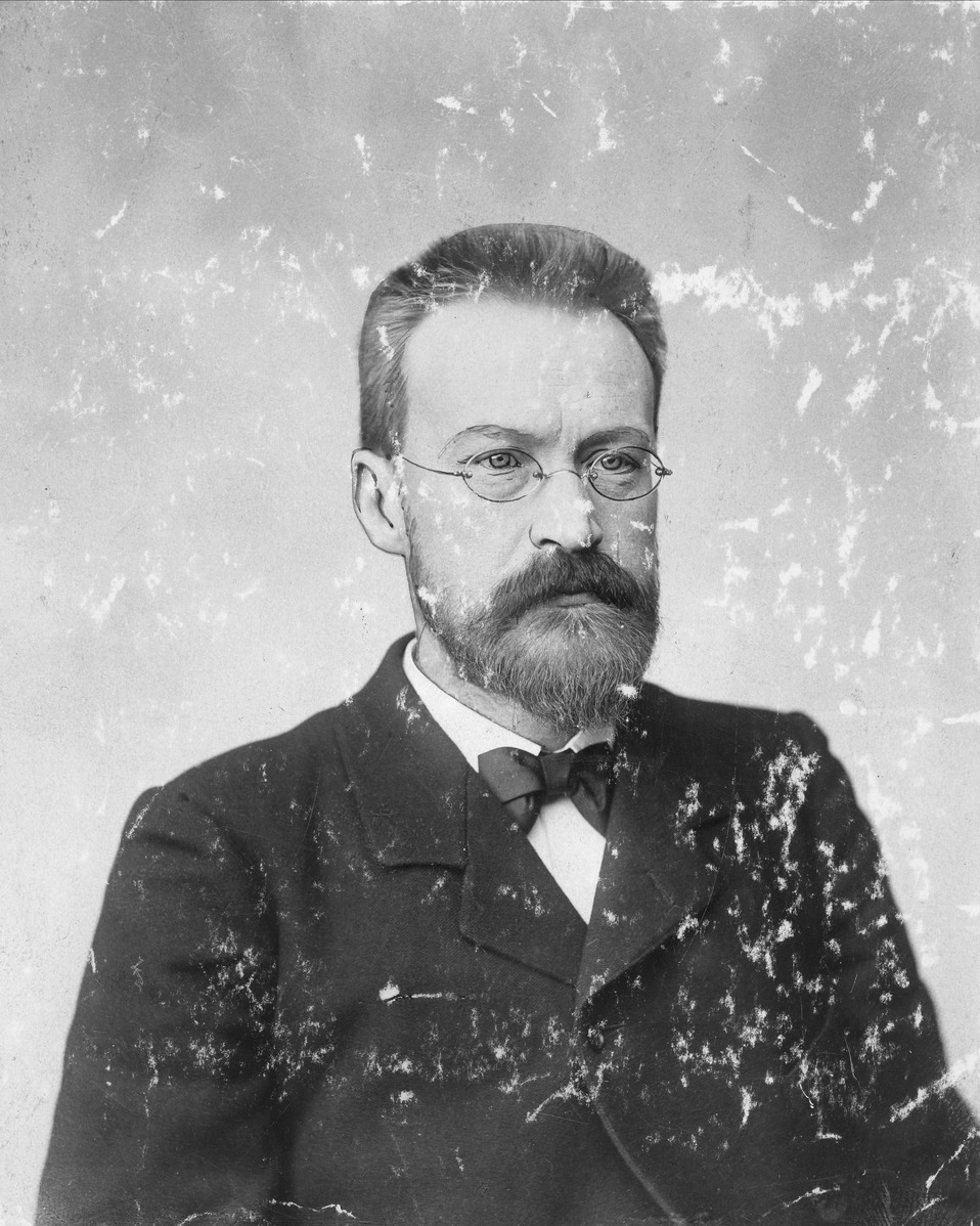 Gabriel Adolf Gustafson.. DigitaltMuseum. Retrieved on 25.11 2014.